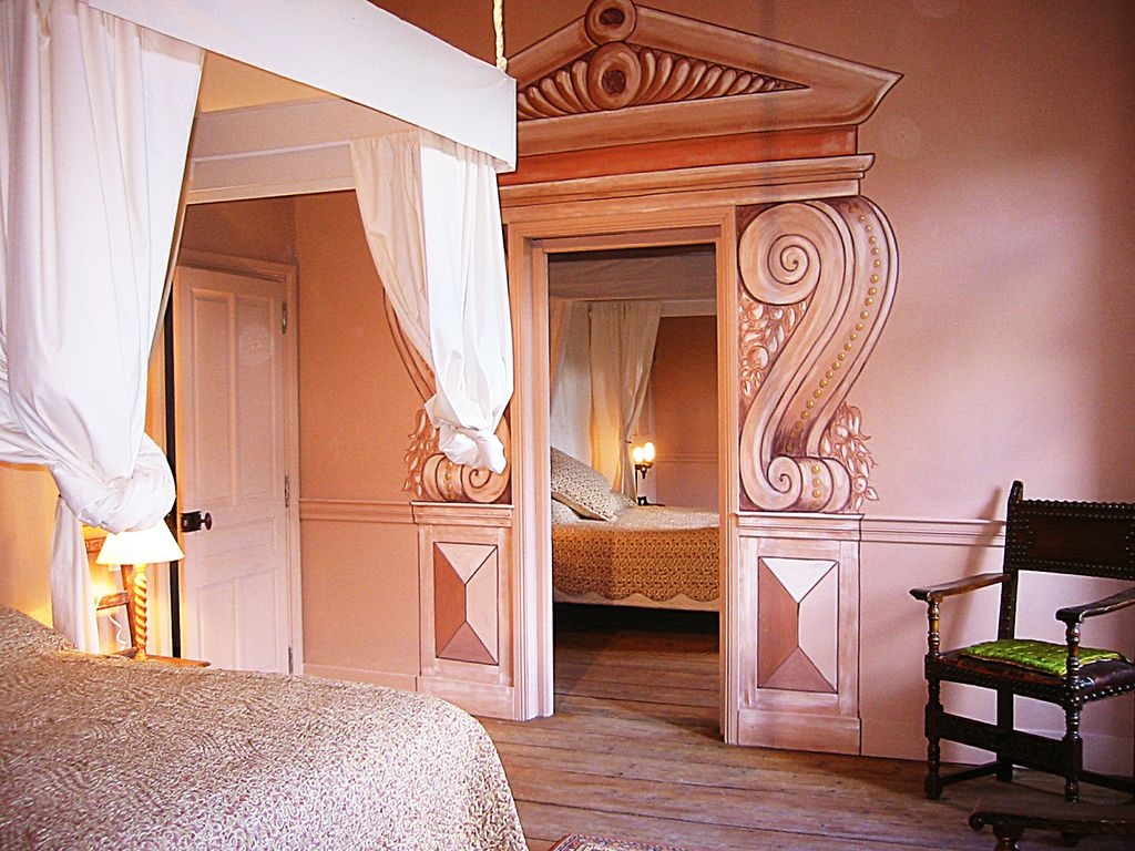 Pic of the quadruple room, at Chateau de Chalmazel (Marcilly Talaru), Rhône-Alpes, France